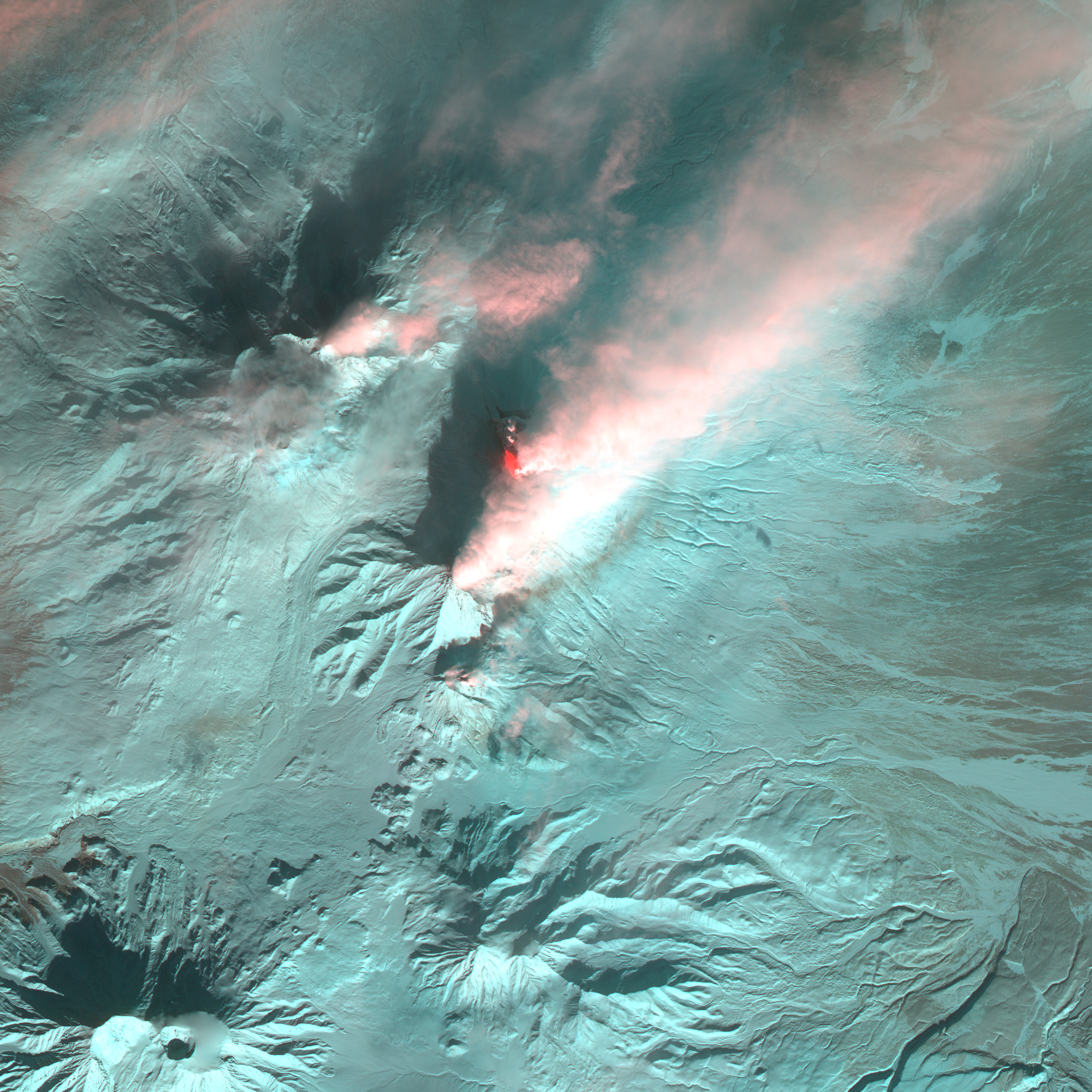 Satellite image of the January 2005 eruption of Klyuchevskaya Sopka.